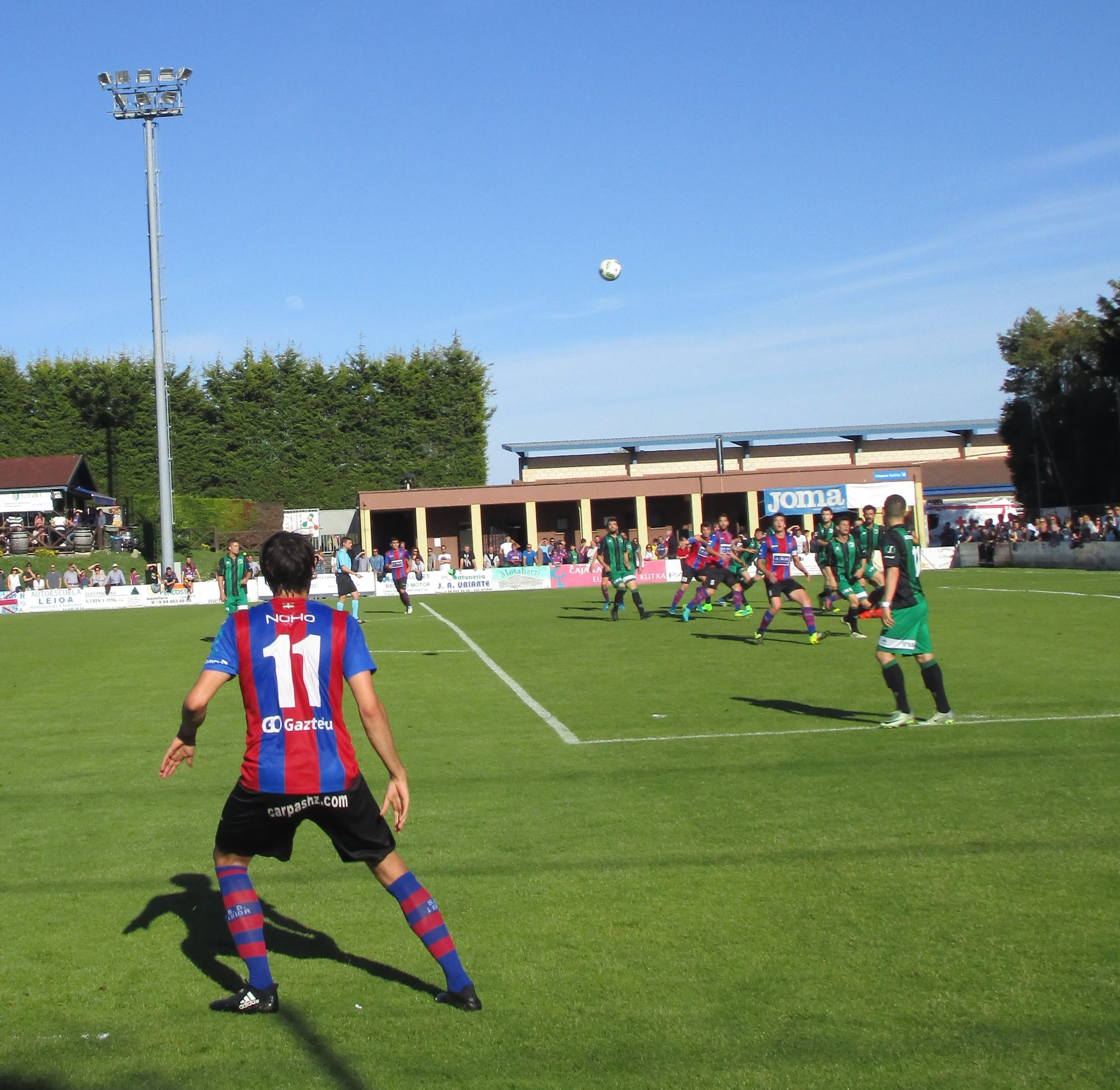 Match between Sociedad Deportiva Leioa and Sestao River Club at Sarriena, Leioa, Biscay, Basque Country, Spain.